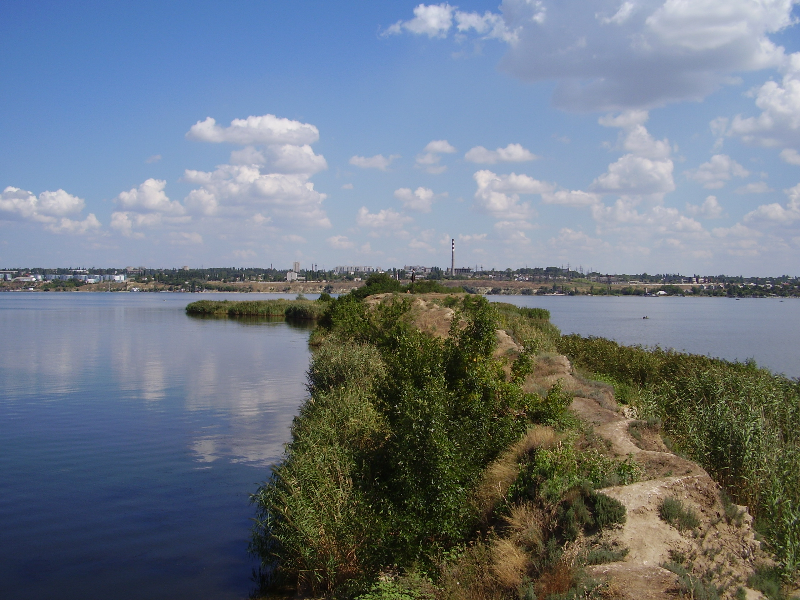 Battery Island, Mykolaiv. View of Mala Koreniha